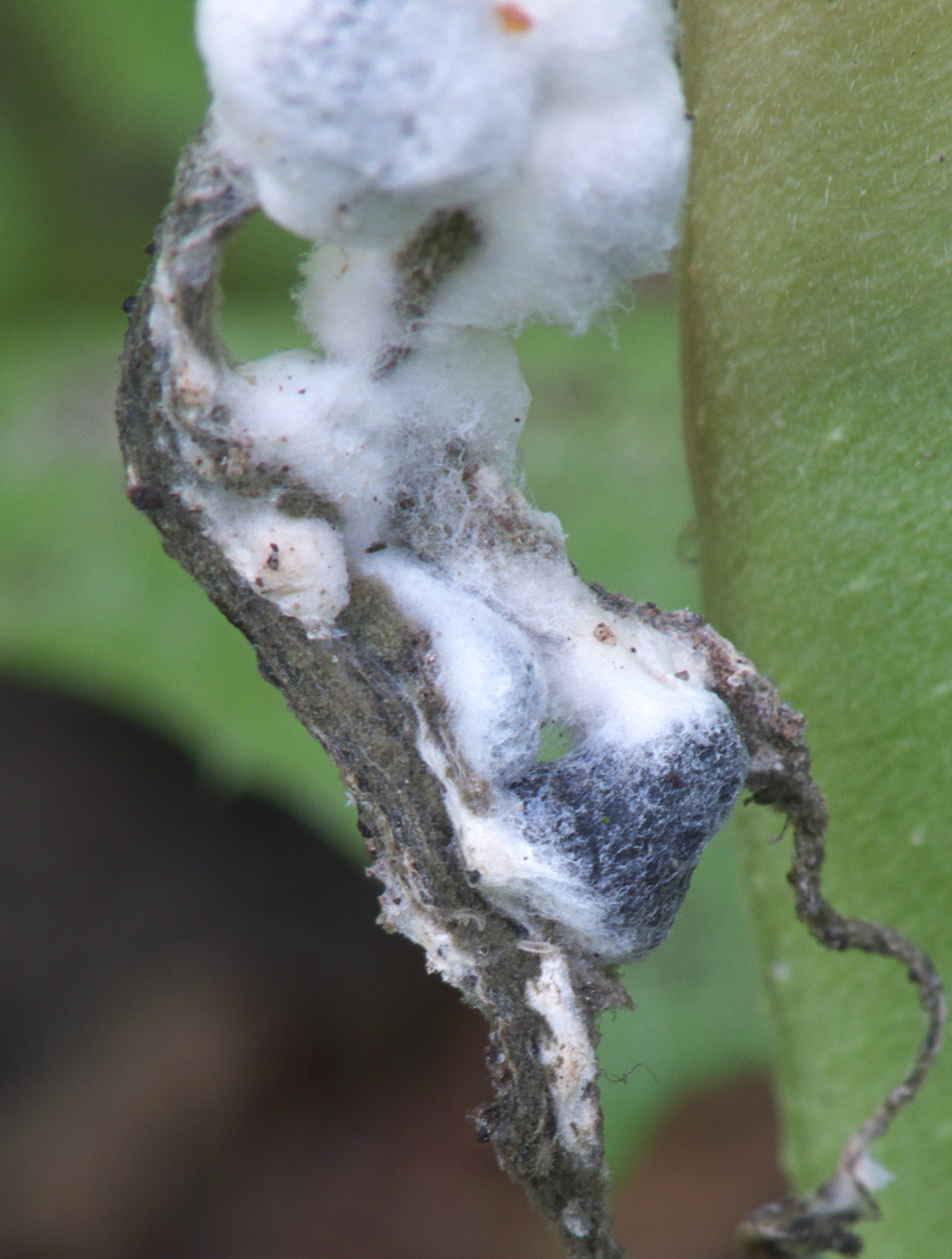 Sclerotinia sclerotiorum sclerotia on Phaseolus vulgaris bushbean